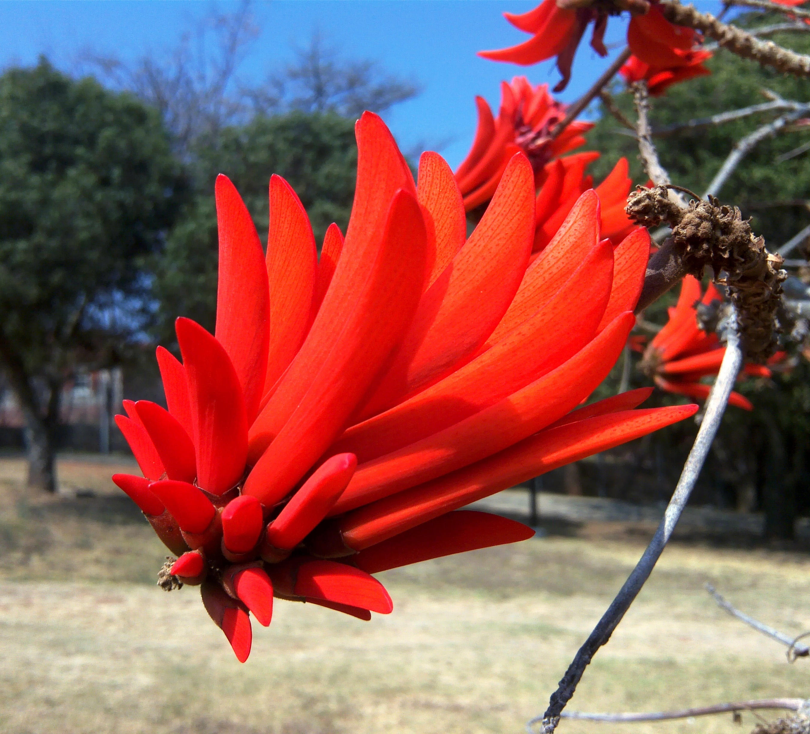 Coral tree inflorescence in the gardens of the Union Buildings, Pretoria